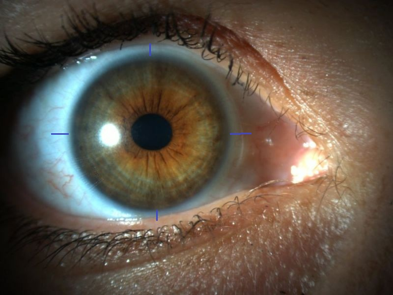 Cornea